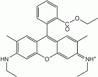 Chemical structure of Rhodamine 6G